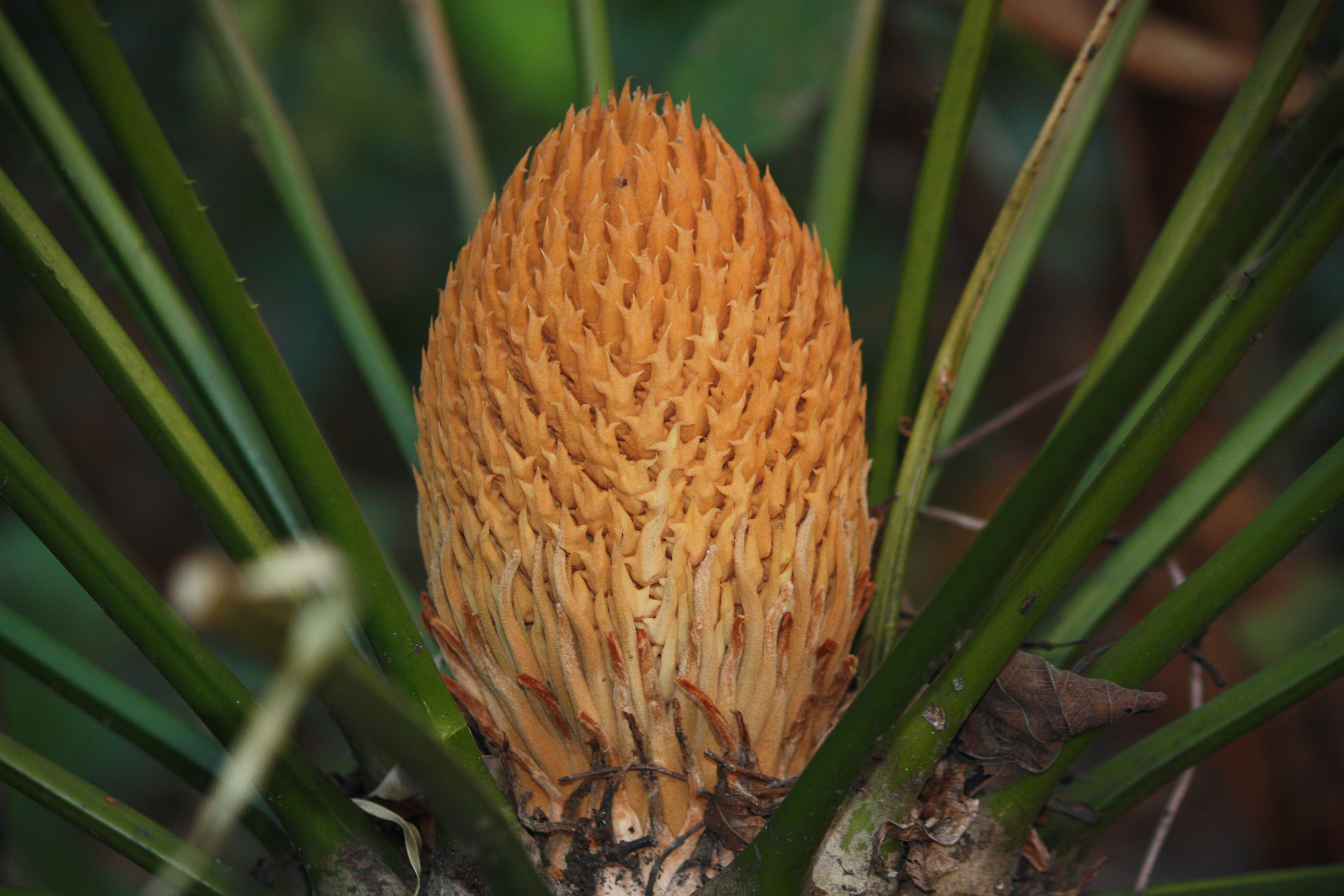 Endangered Species of Odisha, India